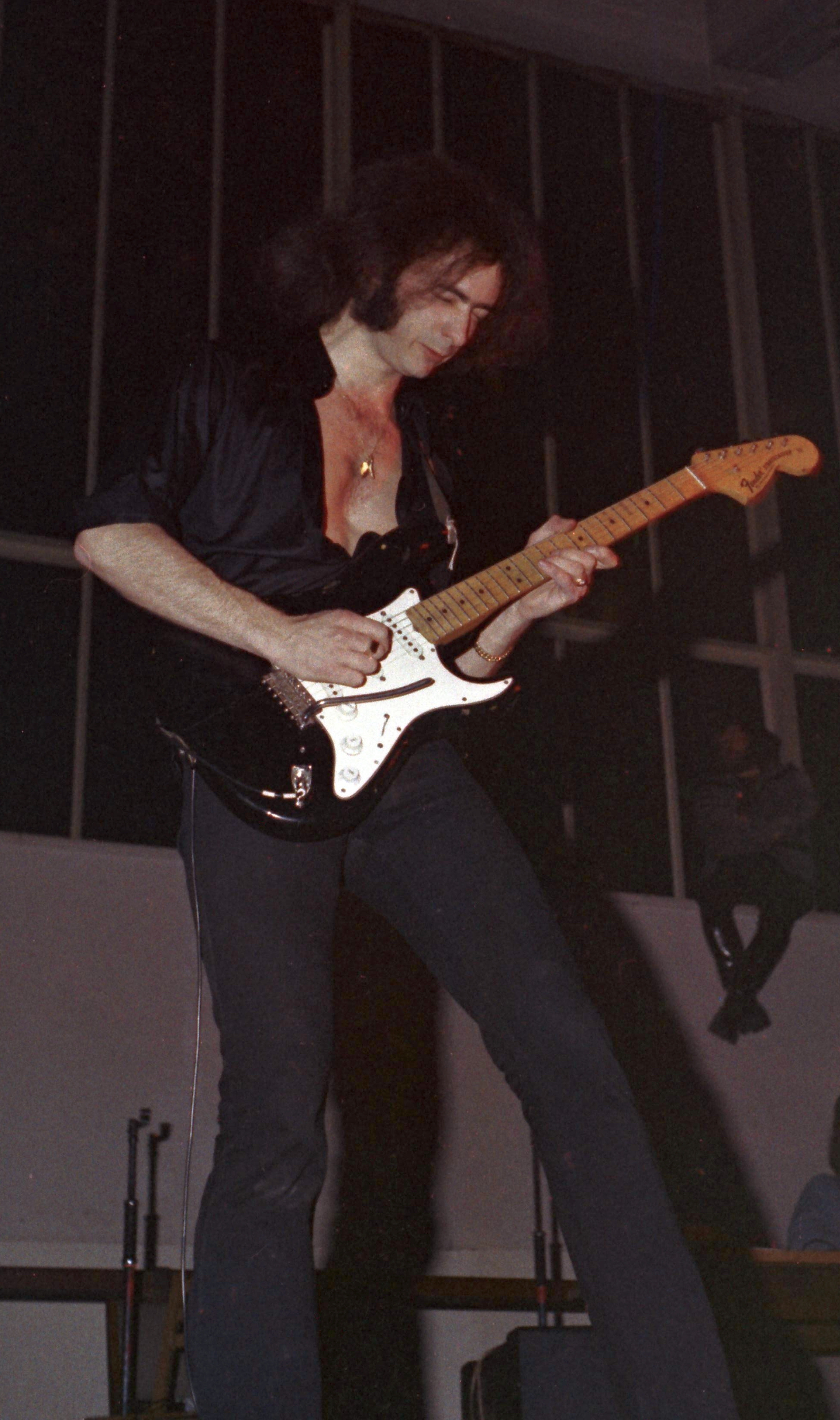 Hamburg